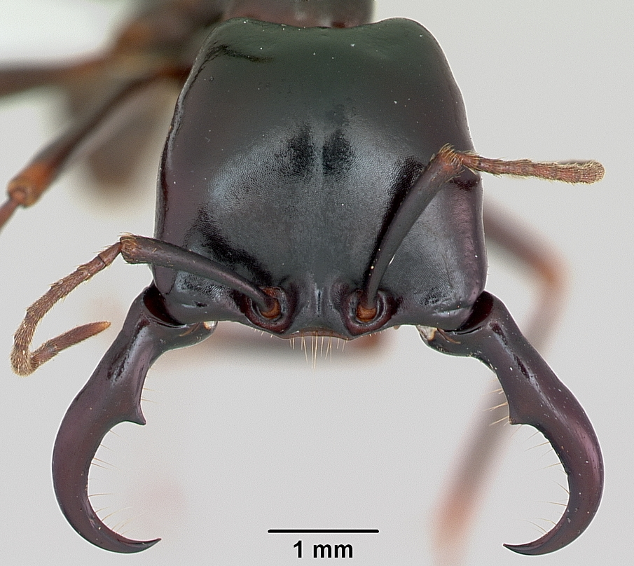 Head view of ant Dorylus nigricans specimen casent0172642.